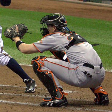 Chris Stewart